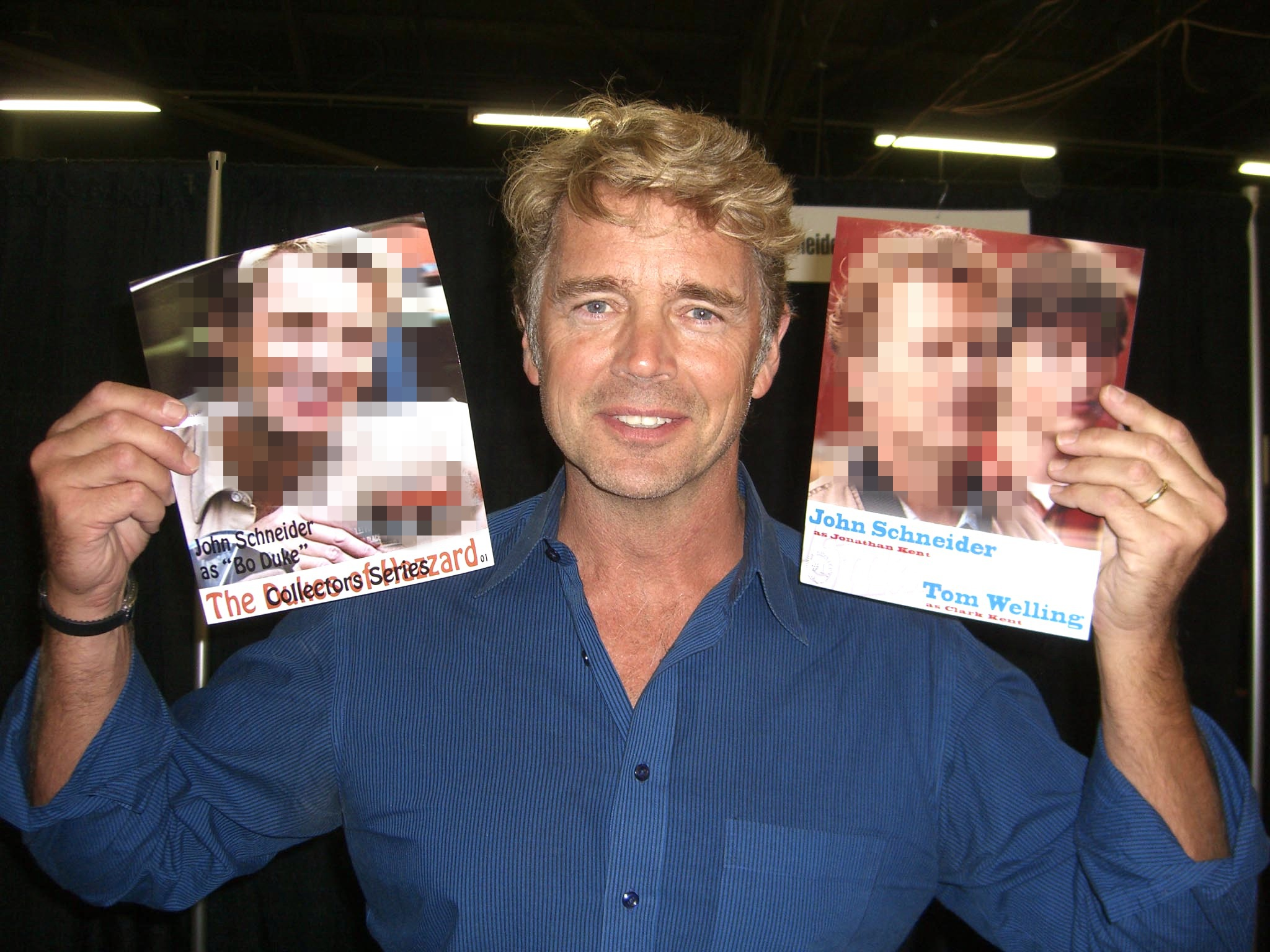 Actor John Schneider at the Big Apple Convention in Manhattan. Photographed by Luigi Novi. This photo may only be used if the photographer is properly credited. (See Licensing information below.)